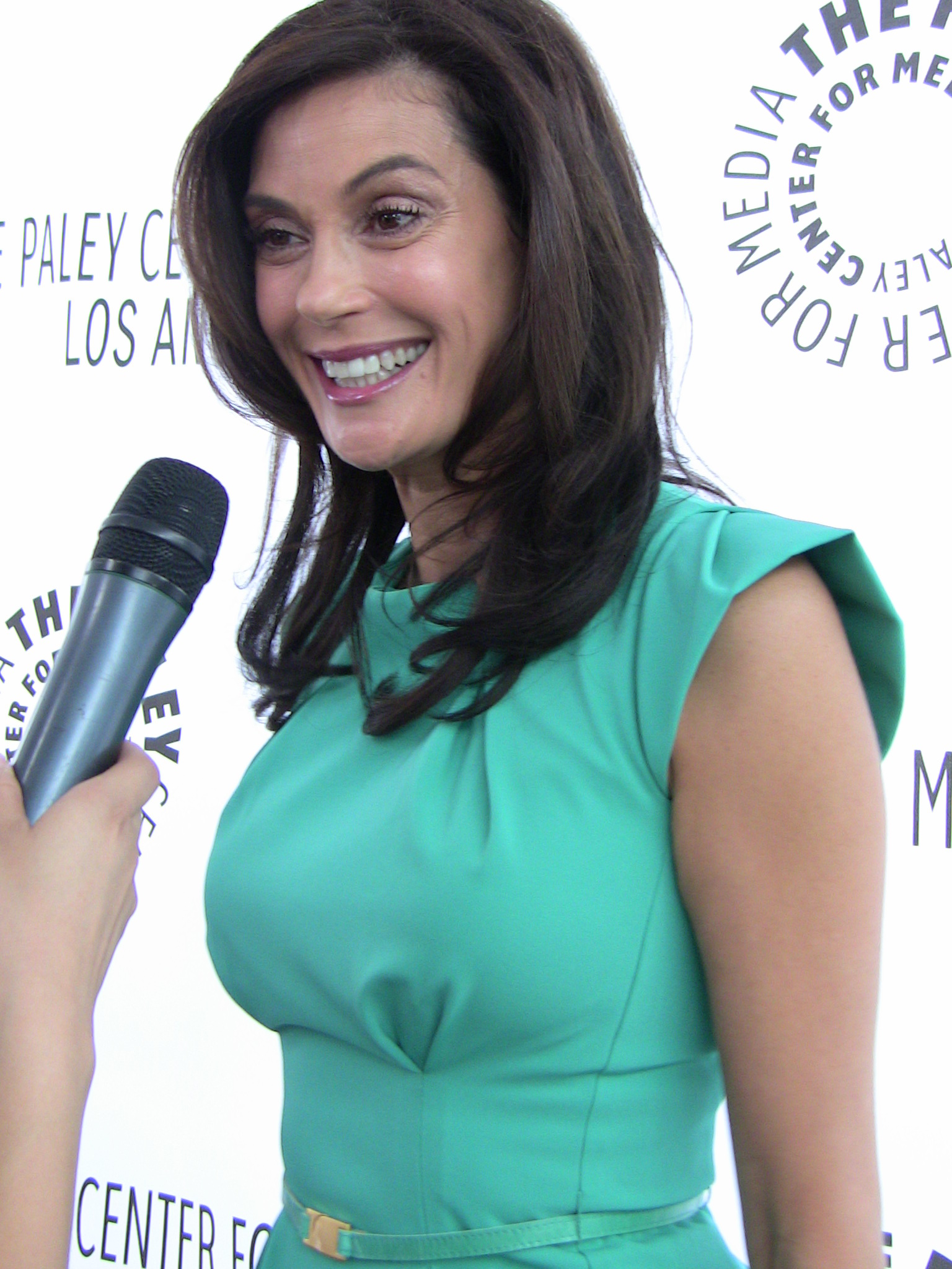 Actress Teri Hatcher at Desperate Housewives Paley Fest, William S. Paley Center, Beverly Hills, California